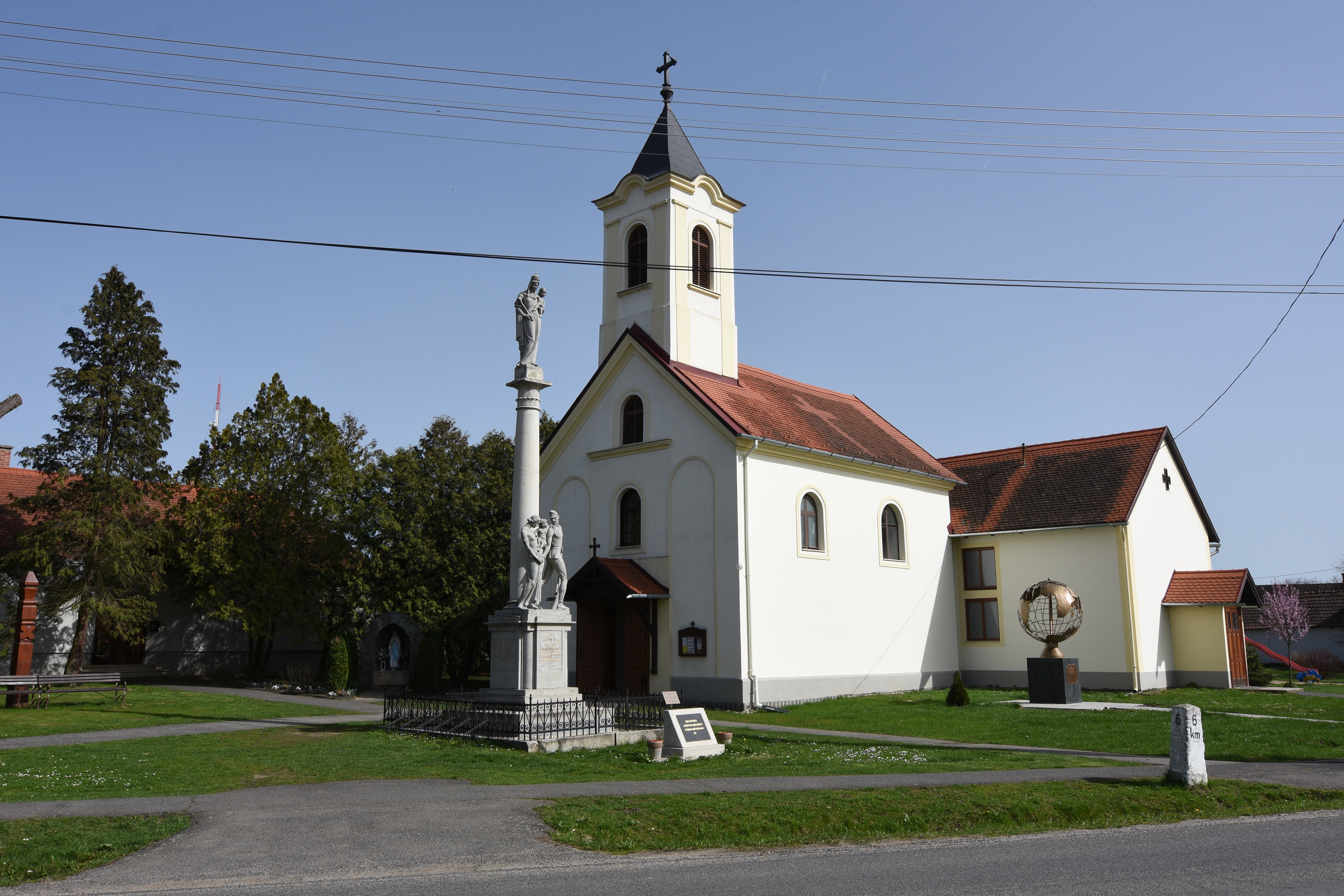 Szentpéterfa Church